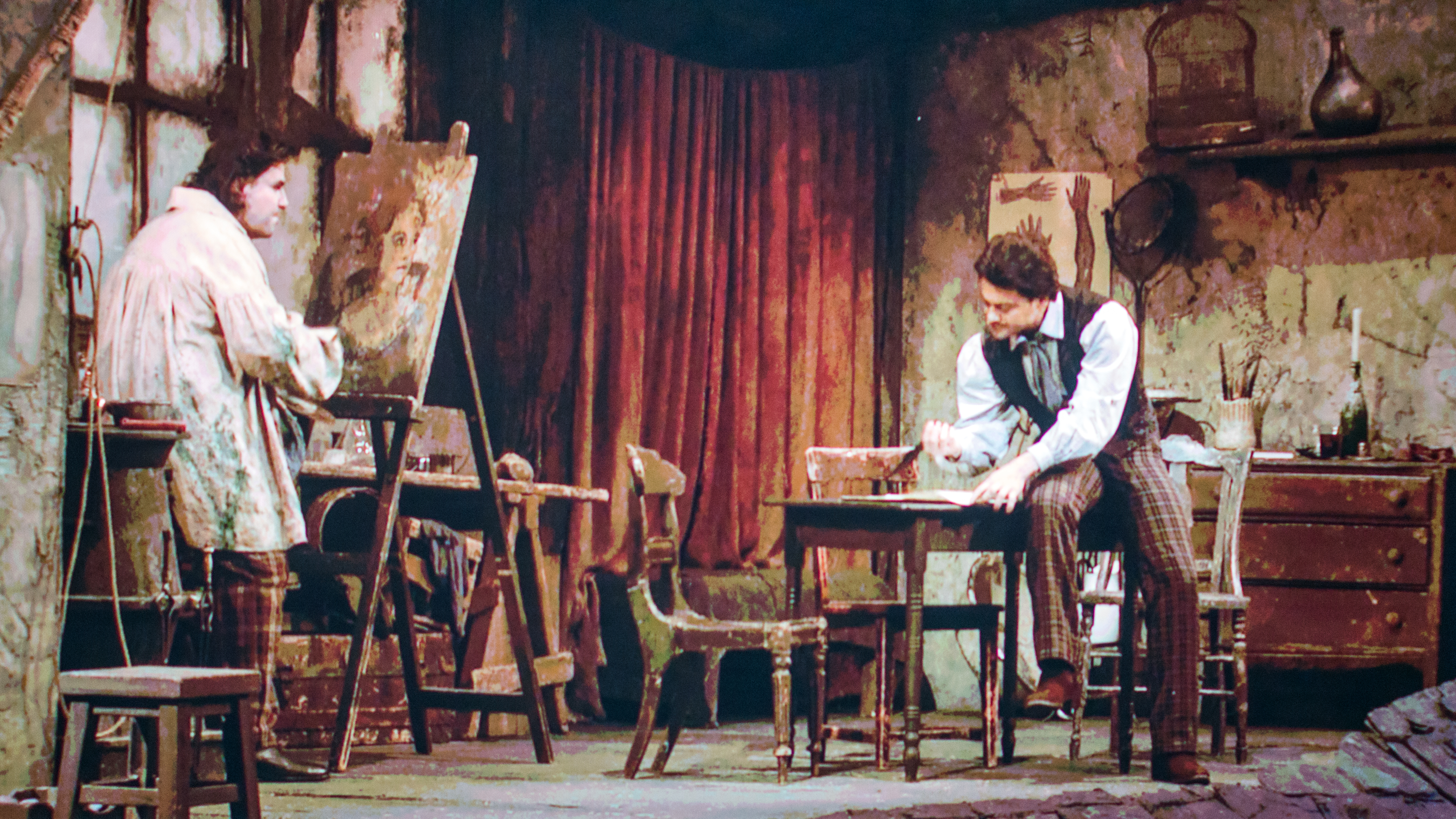 La Bohème from the Metropolitan Opera April 2014